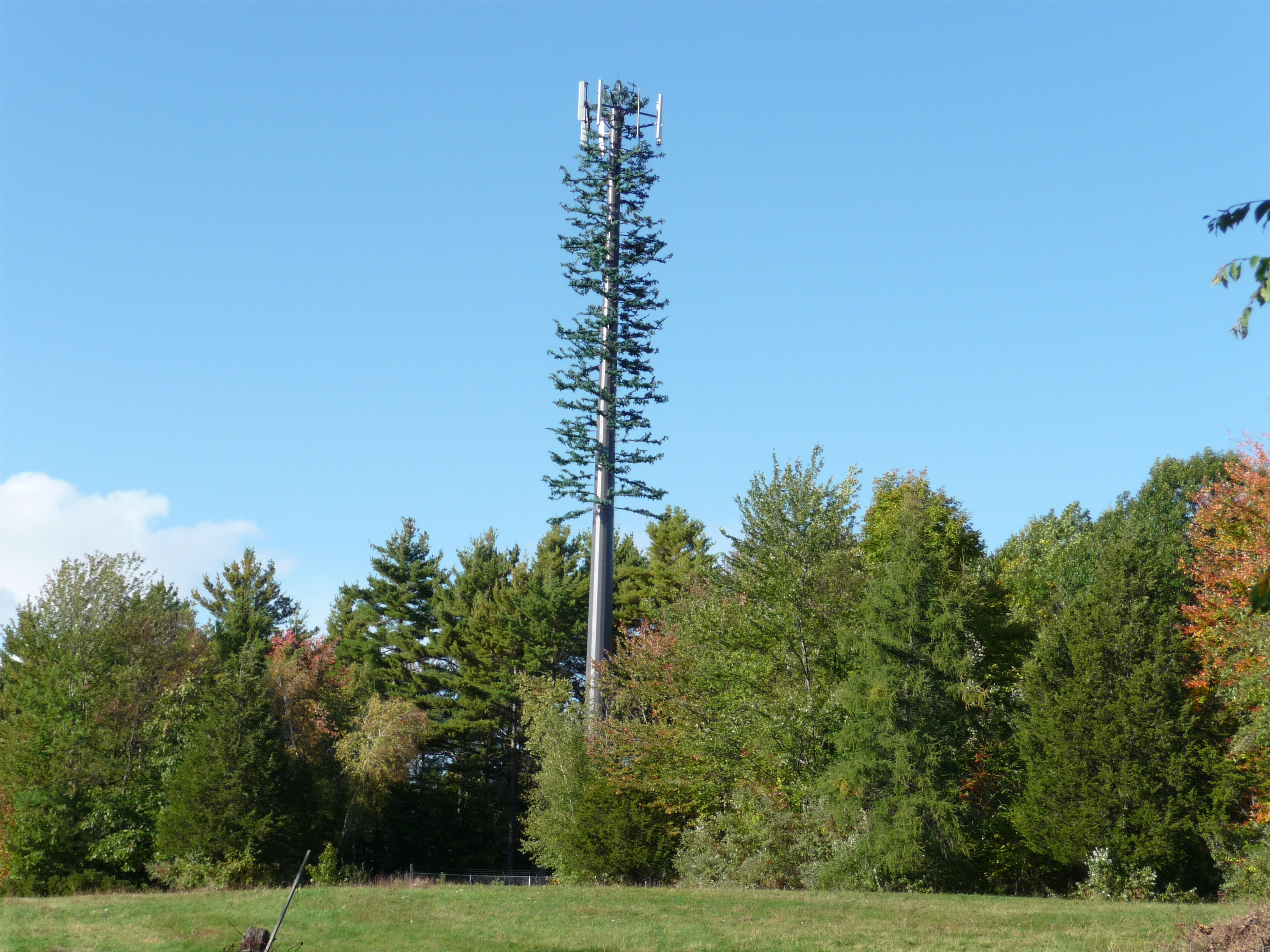 Cell phone tower cleverly disguised to look like an evergreen tree. Located in New Hampshire.